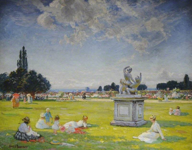 Summer at Hampton Court, Oil on canvas, 104 x 133.5 cm Collection: Ferens Art Gallery